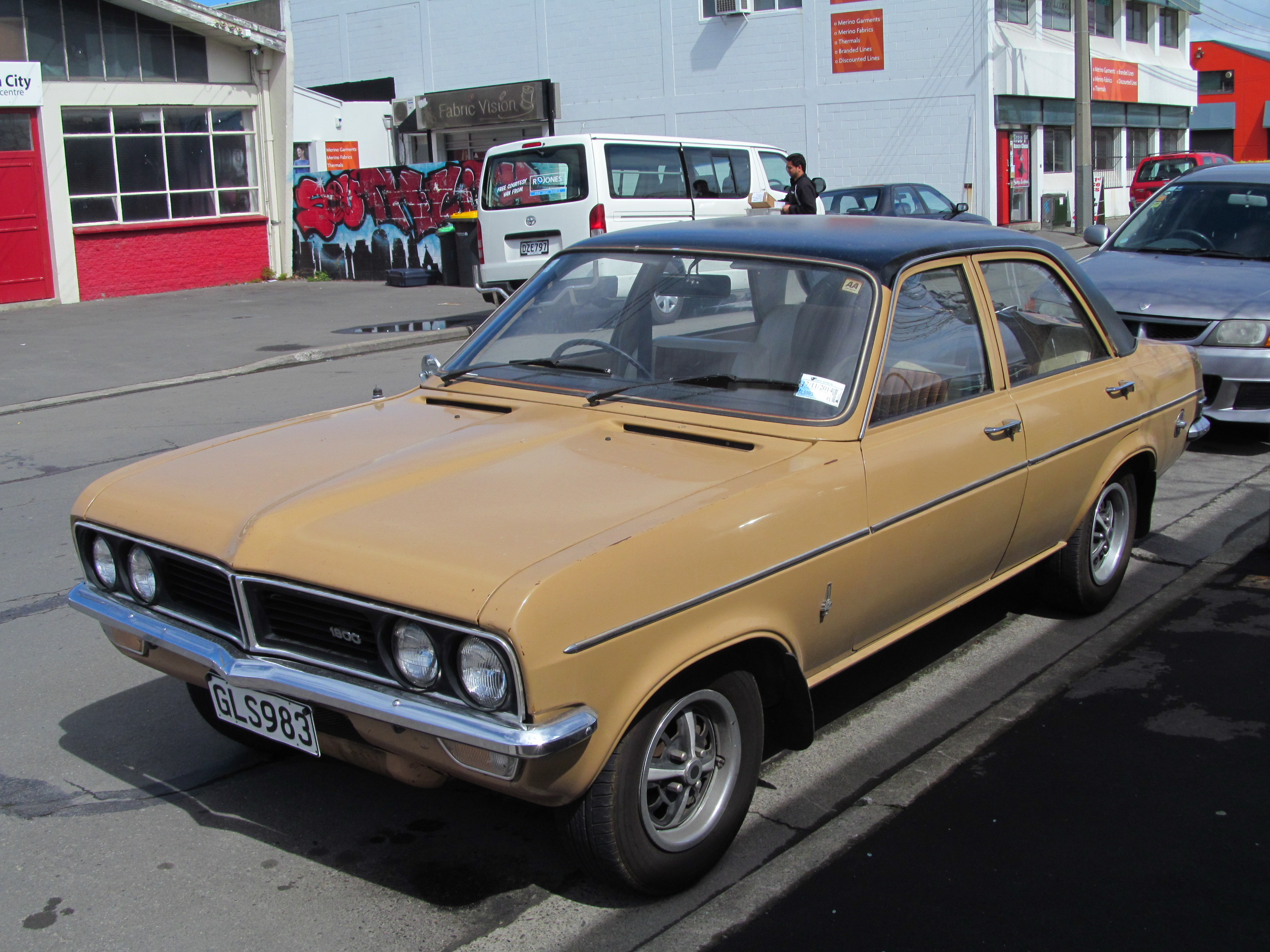 A tidy old Viva here, in what I would call a caramel shade. It is currently for sale on Trade Me with a start price of $3,000.